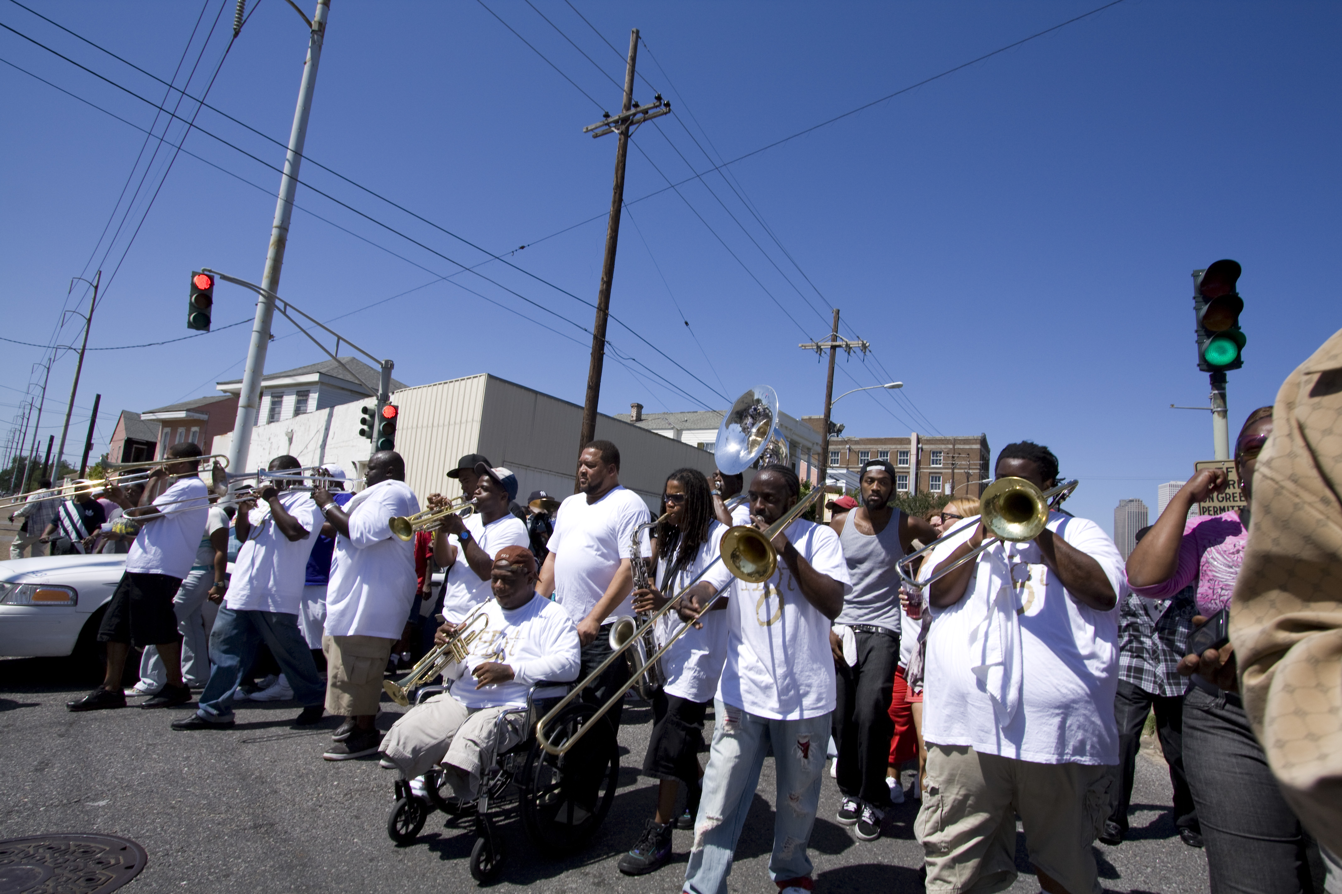 Hot 8 Brass Band playing at Single Ladies parade, New Orleans